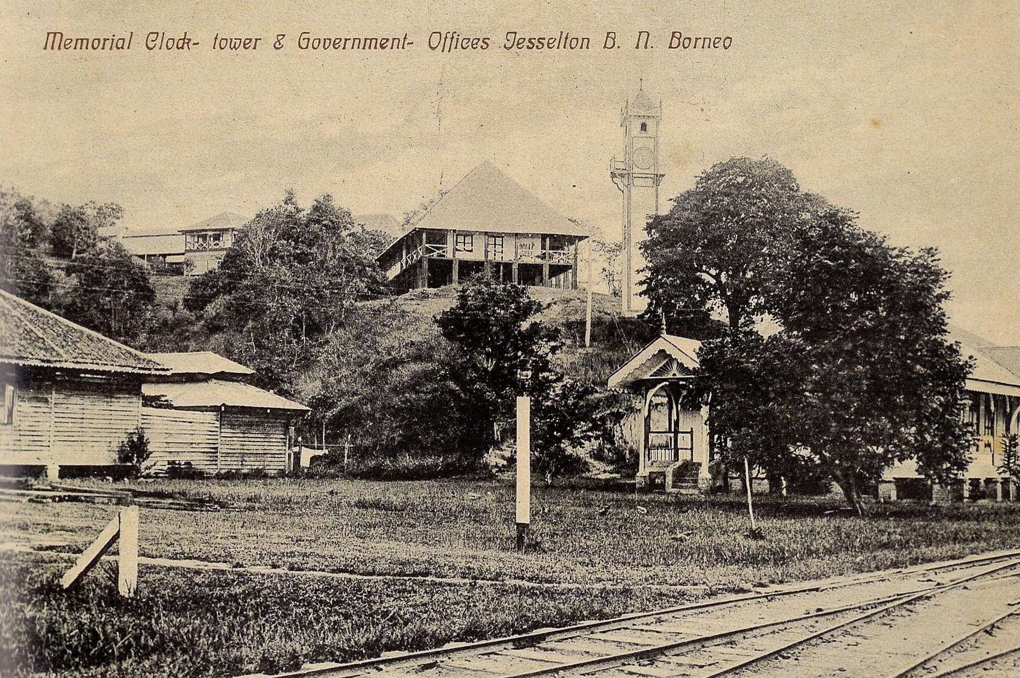 Jesselton, British North Borneo, Atkinson Clock Tower and Government Offices, c. 1910.